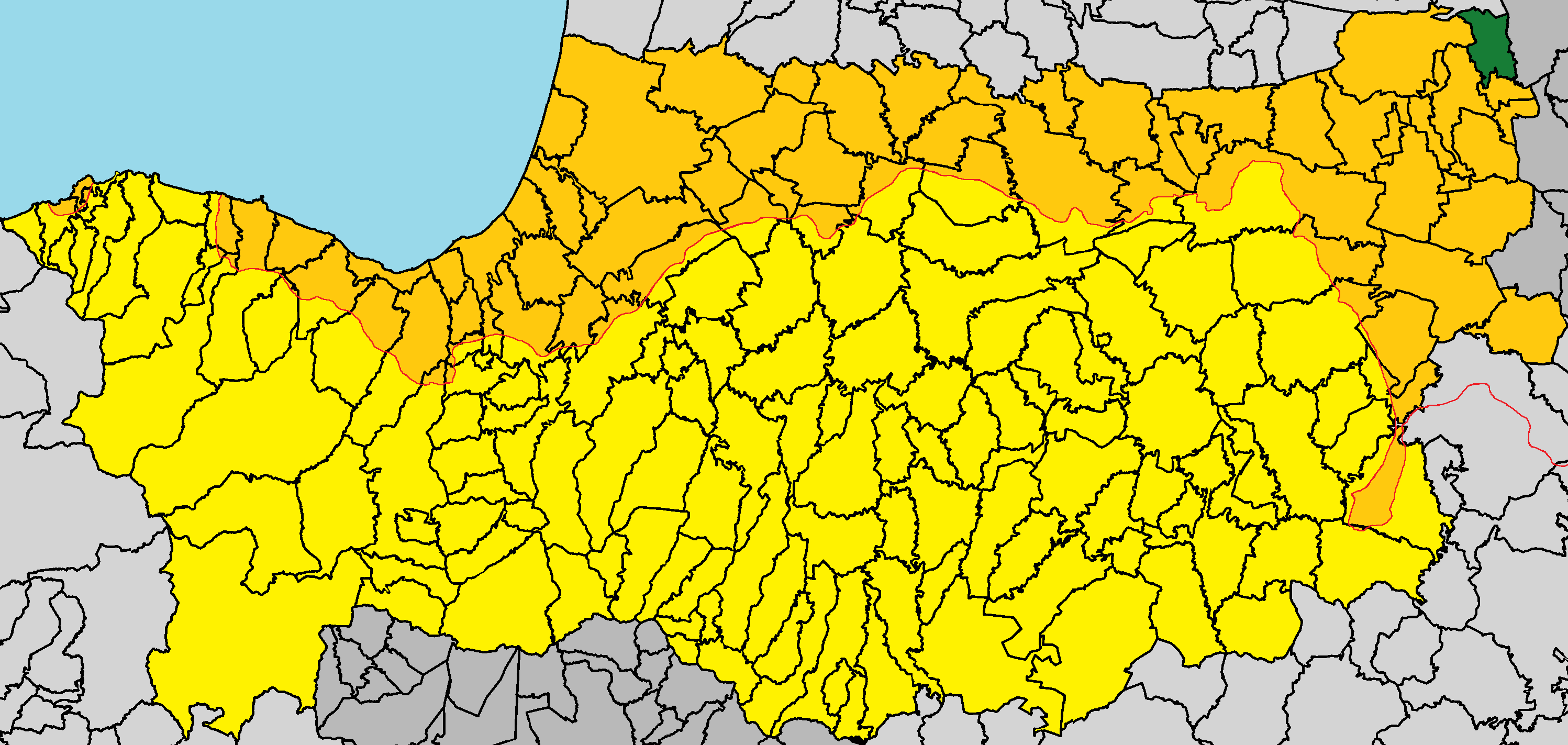 Kalyvakia in Nicosia District (de jure).